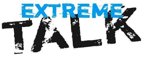 Former logo for Extreme Talk channel XM Satellite Radio